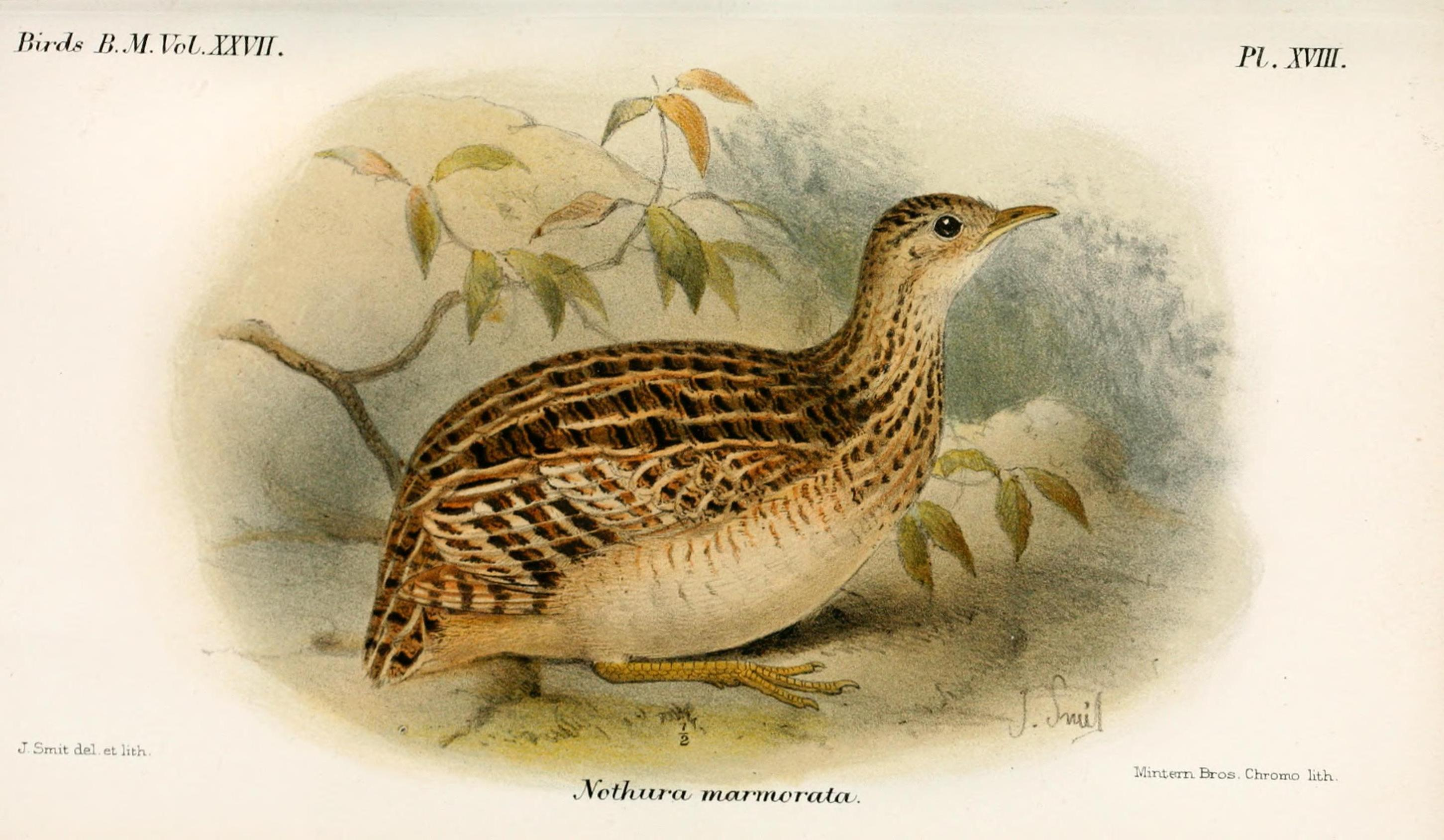 Nothura marmorata = Nothura boraquira, White-bellied Nothura